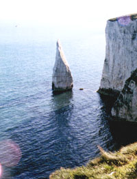 Stack near Old Harry Rocks, Dorset, England.